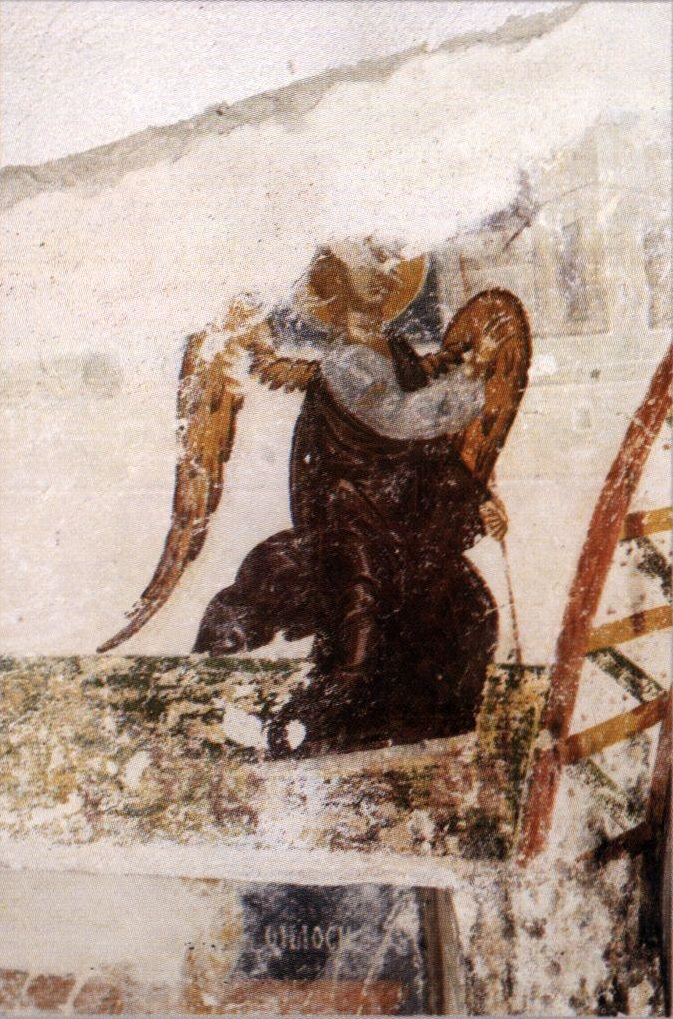 Panagouda Church in Theologos in Thasos Fresco